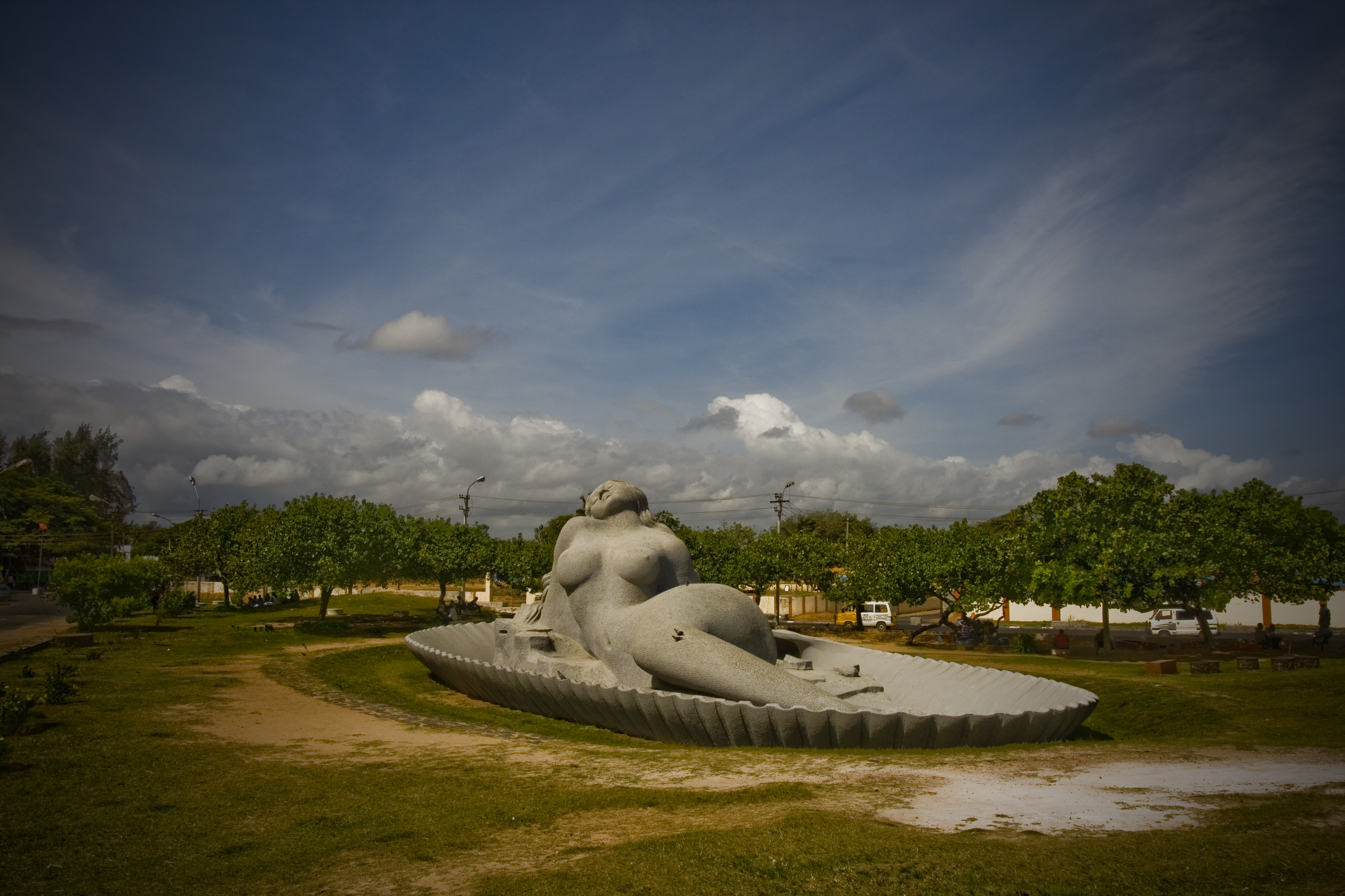 The Mermaid at Shankhumukham beach, Trivandrum, Kerala by Kanai Kunjiraman